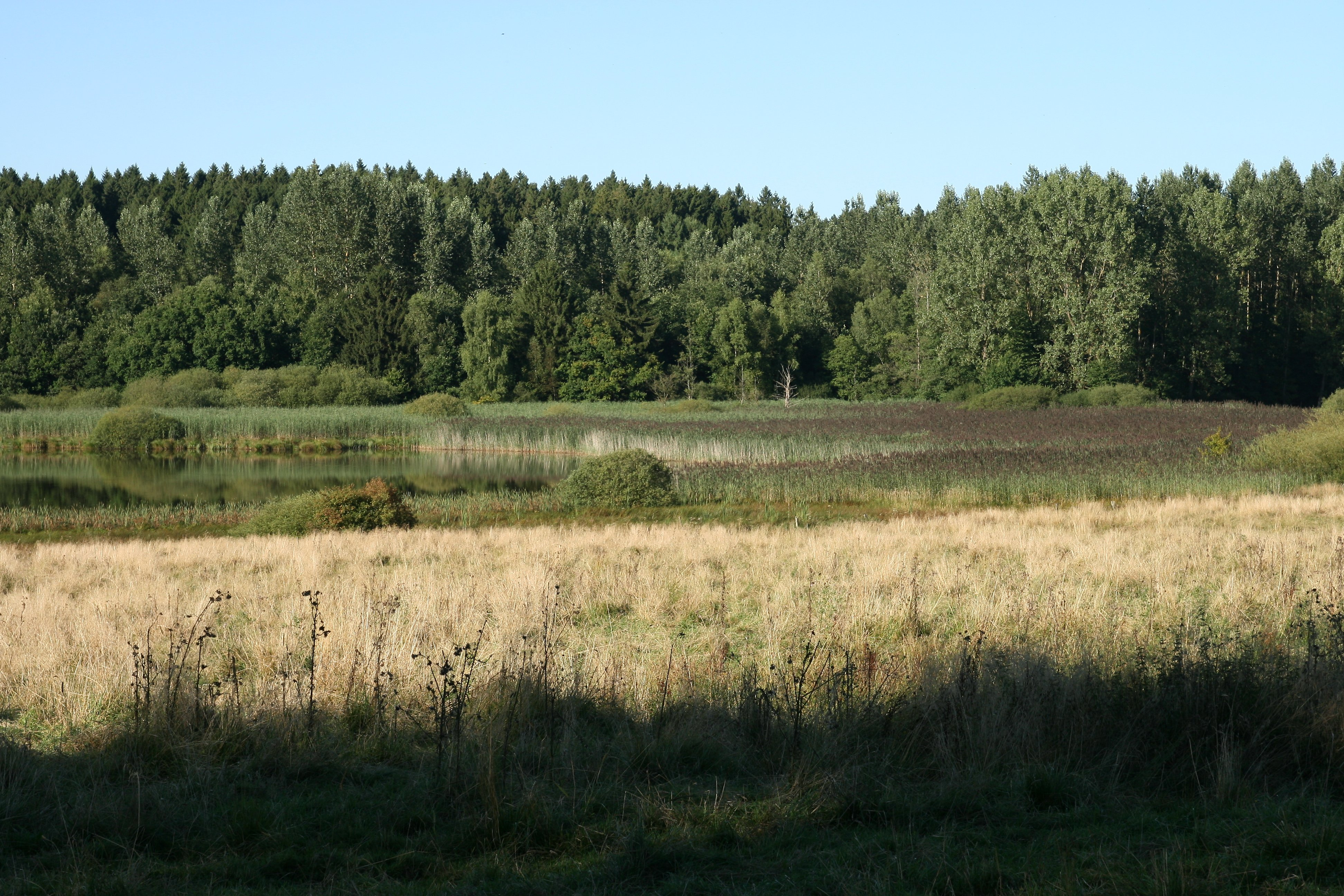 Nature reserve Wölferlinger Weiher, Westerwald, Germany. View of the eastern part of the pond (from south) that is small compared to the other ponds of Westerwälder Seenplatte